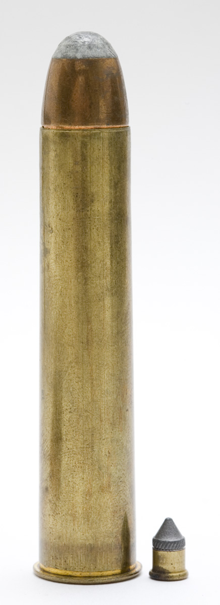 577 Nitro Express next to 22 CB cap. (Photo by Oleg Volk)